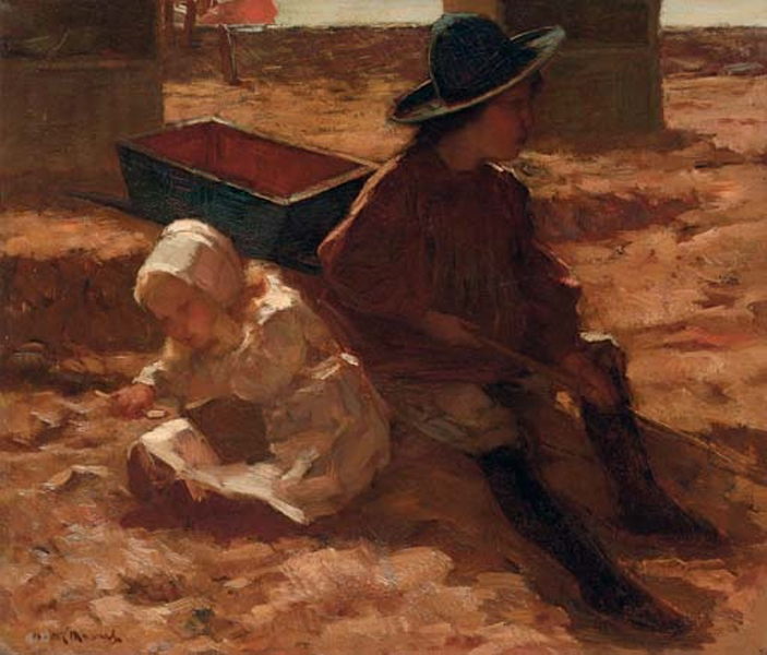 Children playing on the beach